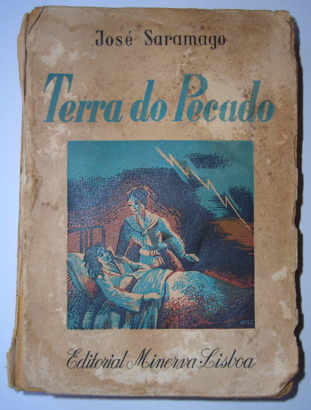 "Terra do Pecado", the first book published by José Saramago: Cover of the original edition, published in 1947.